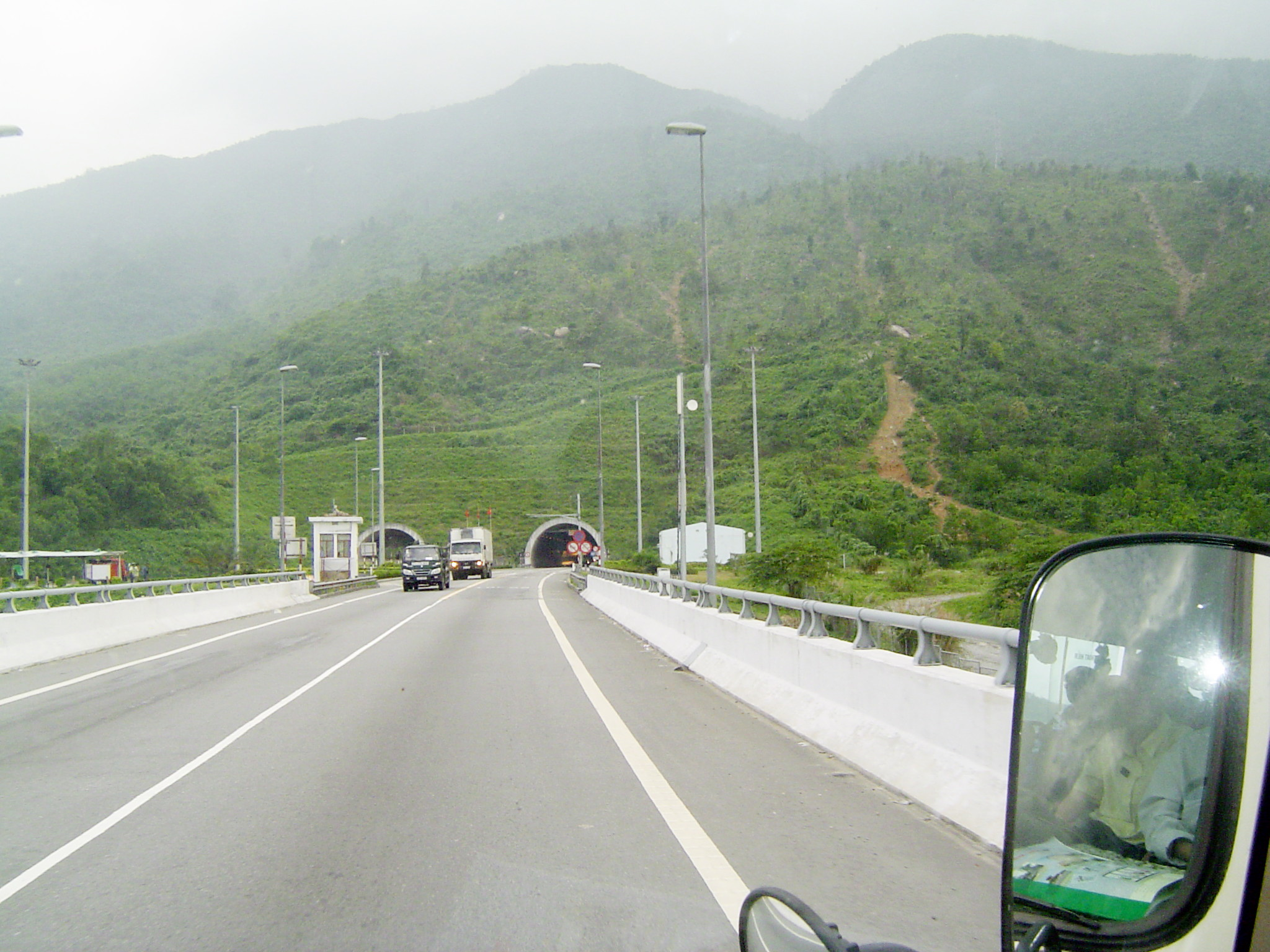 Haivan Tunnel, Viet Nam.